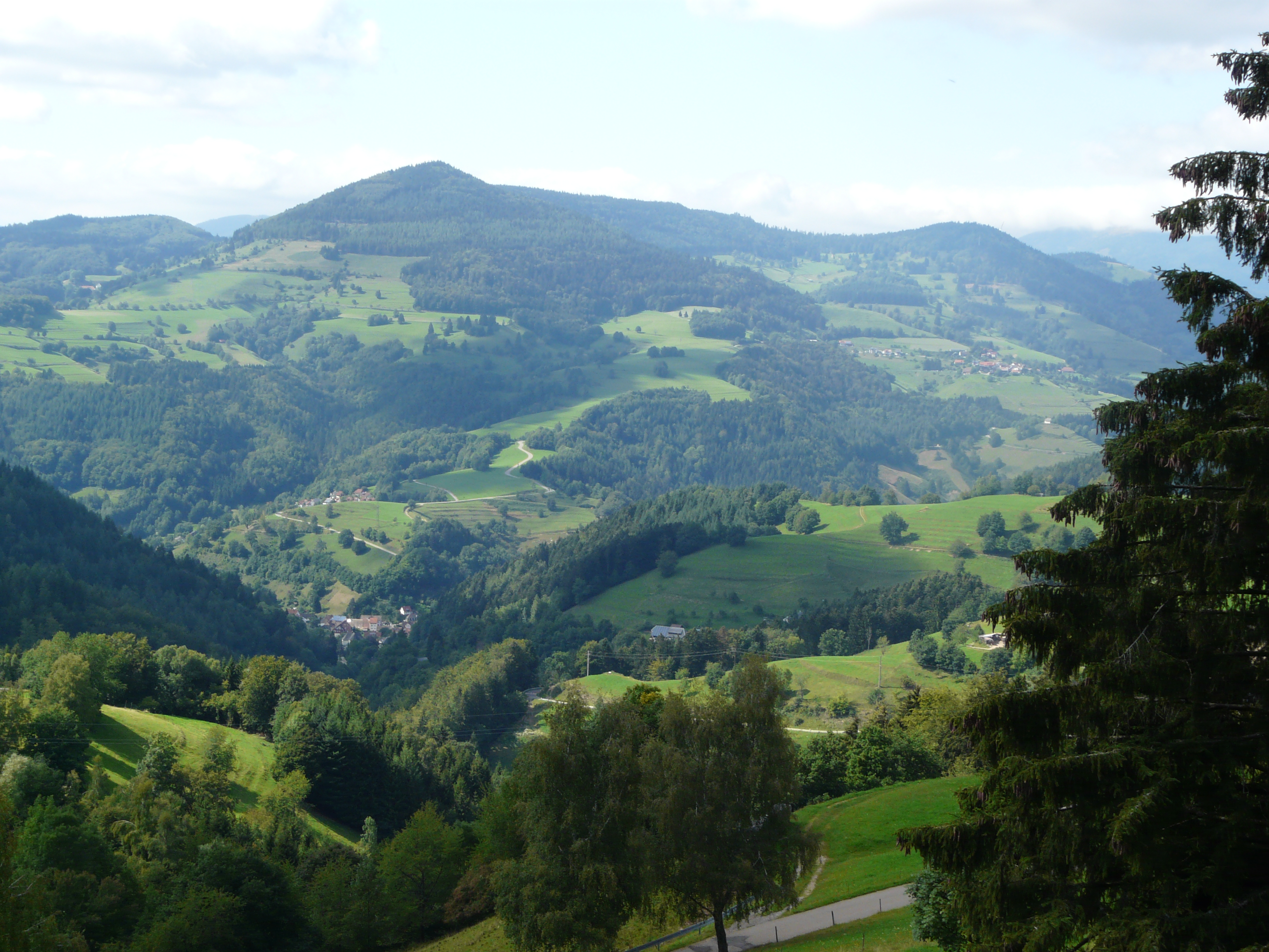 The mountains around Zell im Wiesental